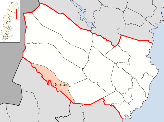 Dorotea Municipality in Västerbotten County Designed by me. Mere outlines are a PD source from